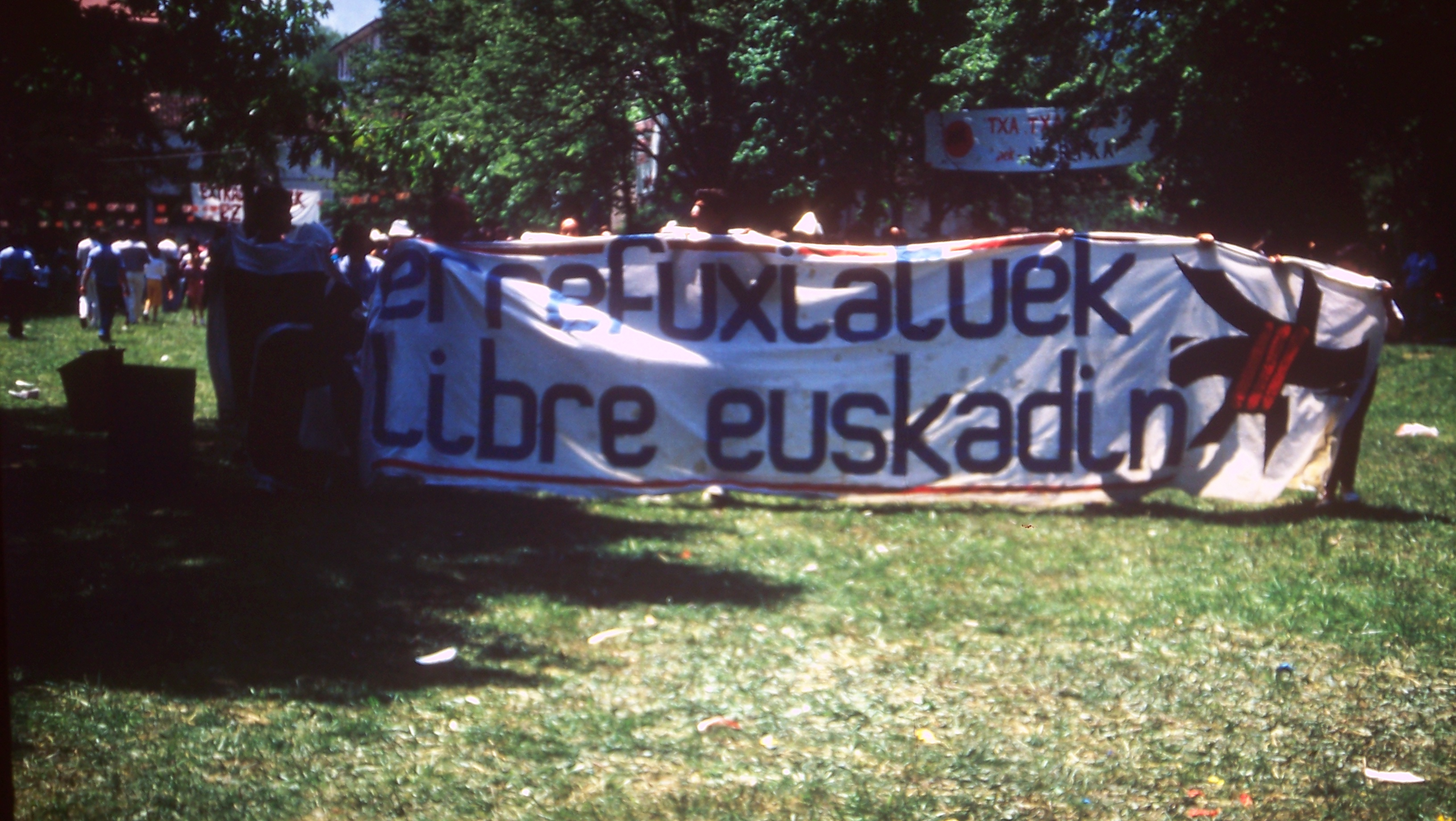 Banner claiming for rights for the basque refugess, Amurrio, 1986.